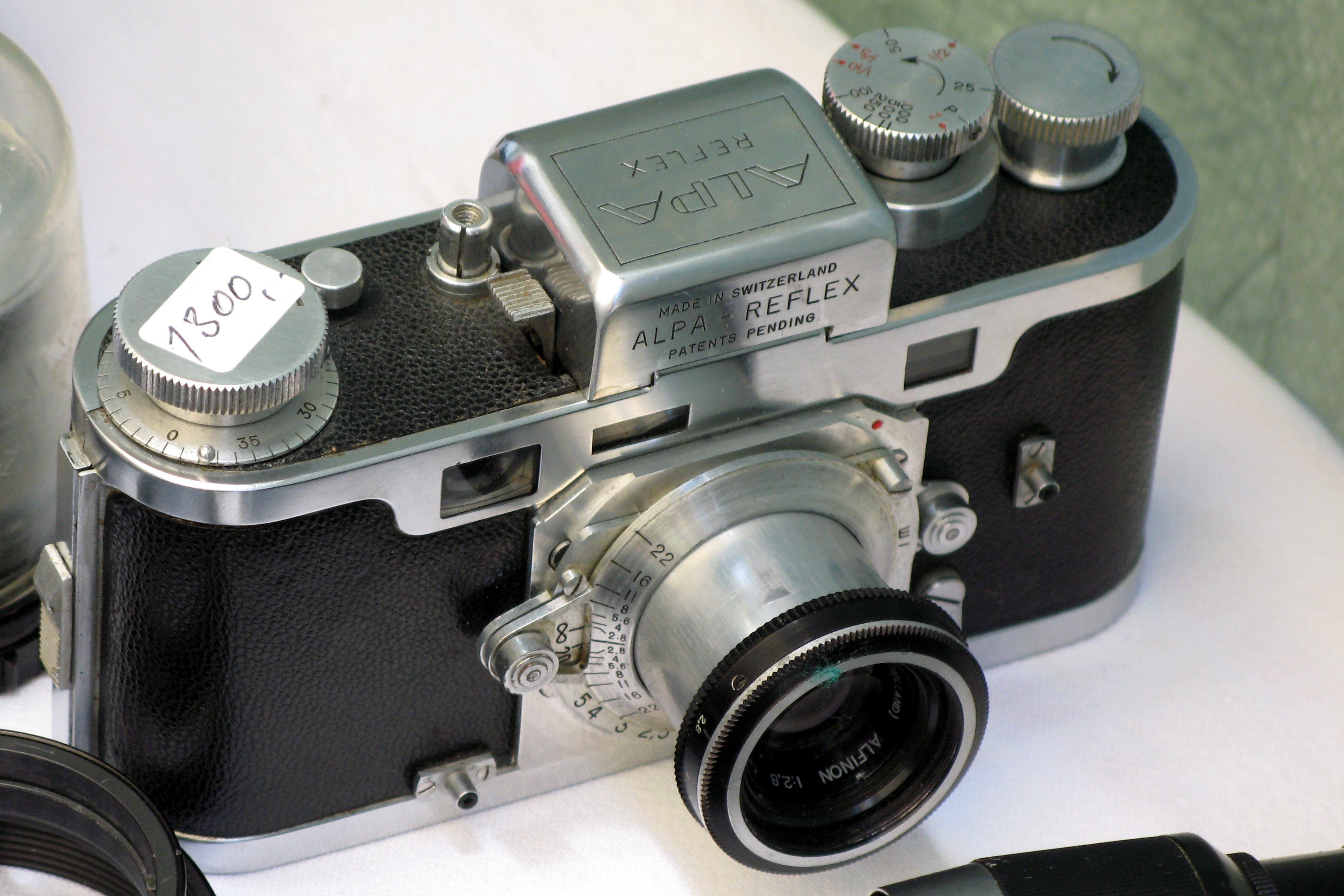 Alpa camera